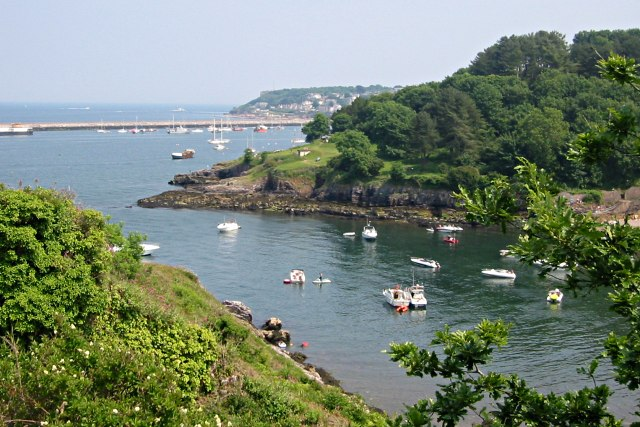 Churston Cove Looking down into the cove from Fishcombe Point. In the distance is the outer breakwater of Brixham Harbour.